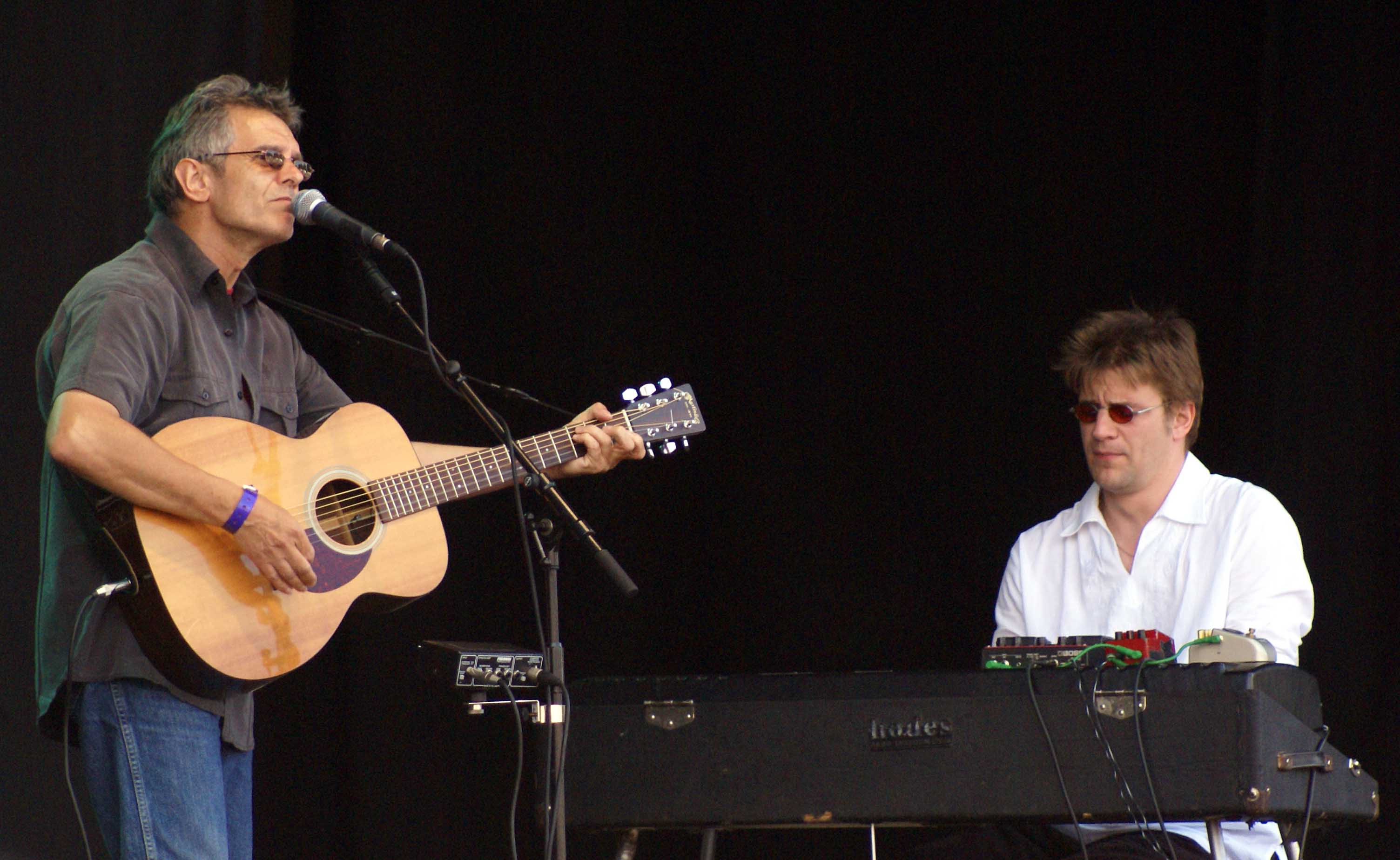 Iain Matthews, founder member of Fairport Convention, at the 2007 Cropredy festival backed by Mike Roelfors